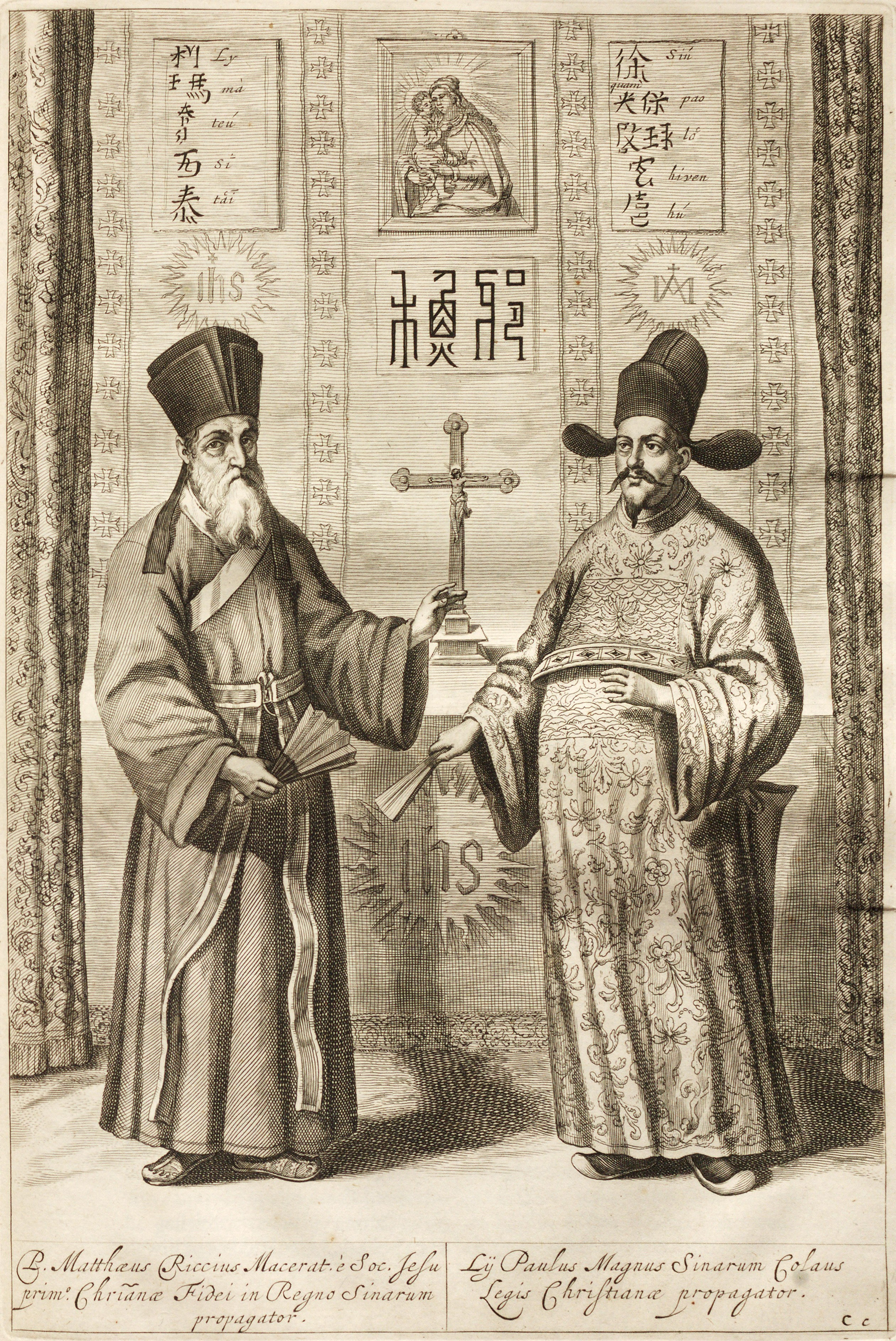 Illustration from 1668 Dutch translation of 'China Illustrata'.